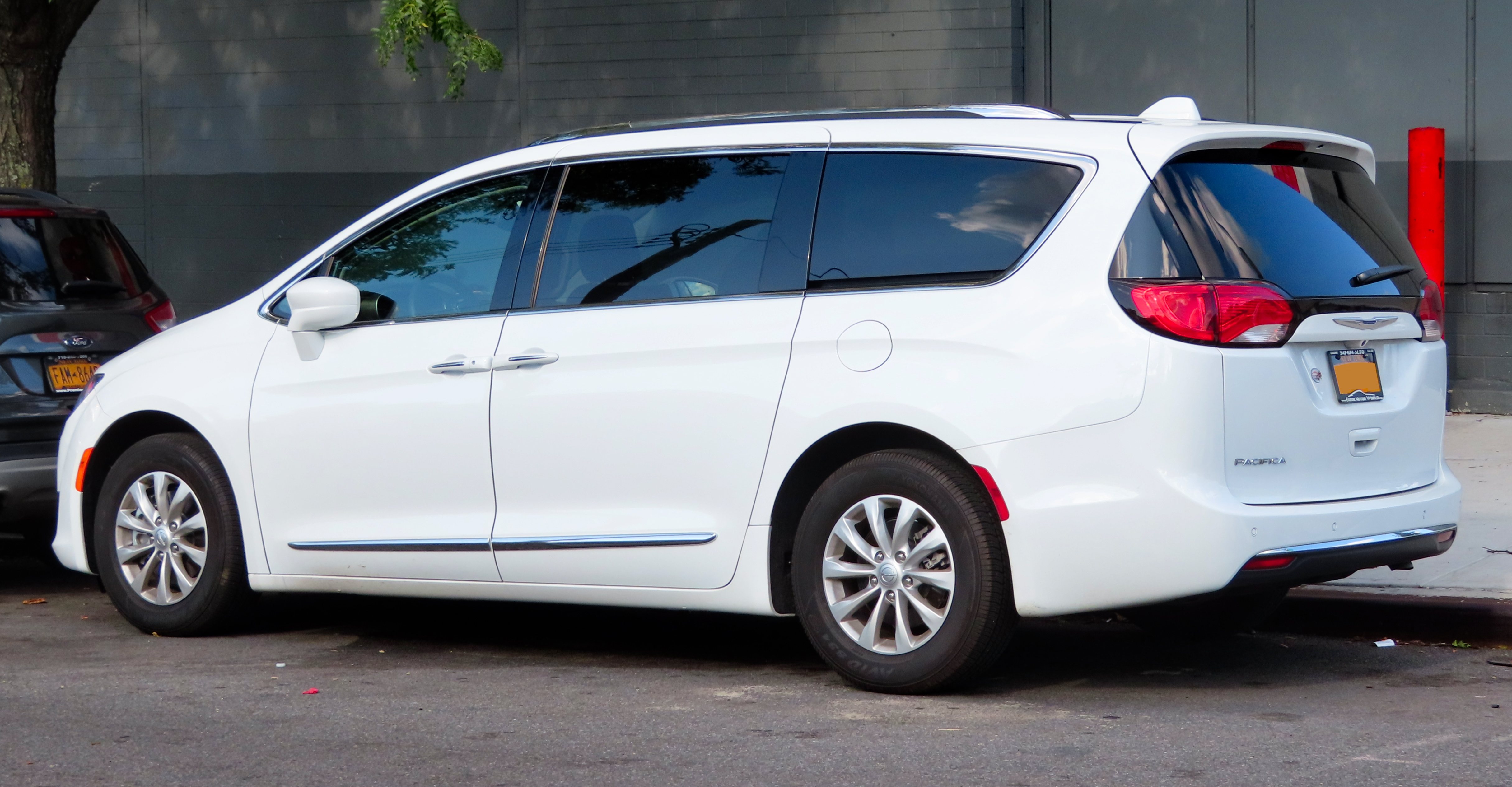 A 2019 Chrysler Pacifica Touring photographed in Jackson Heights, Queens, New York, USA